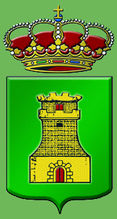 Coat of arms of Piedrabuena, Ciudad Real (Spain)